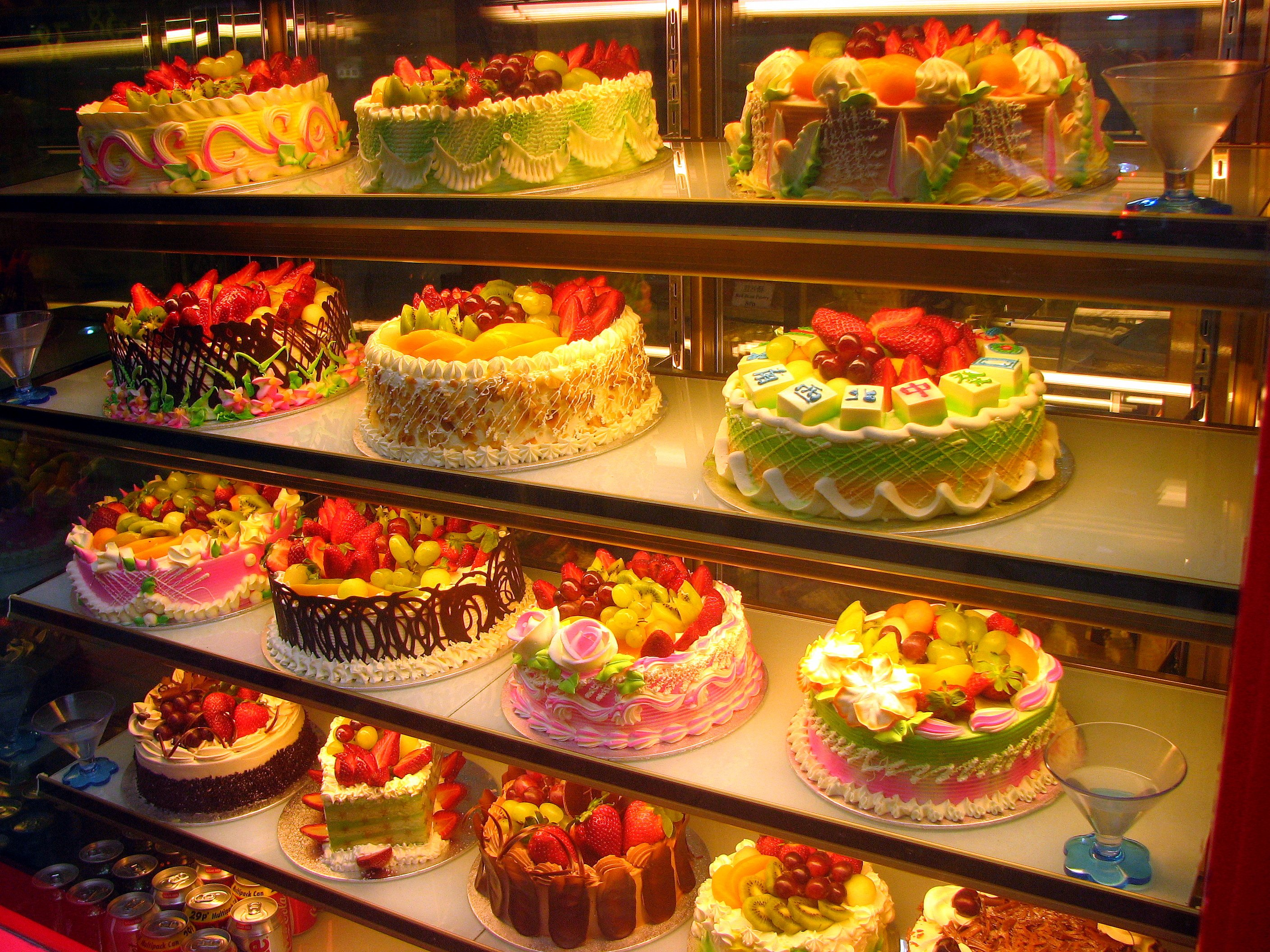 An assortment of cakes at a Chinese bakery in Shaftesbury Avenue near London's Chinatown.